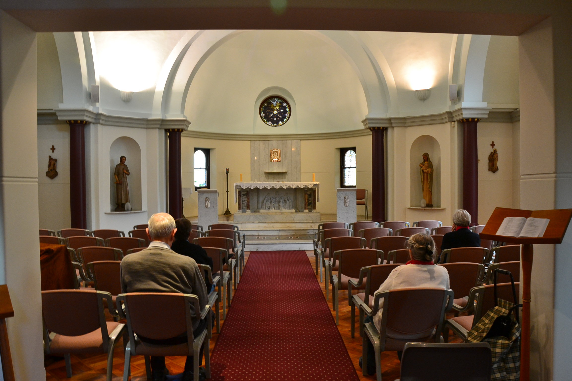 sacred heart hospice, sydney